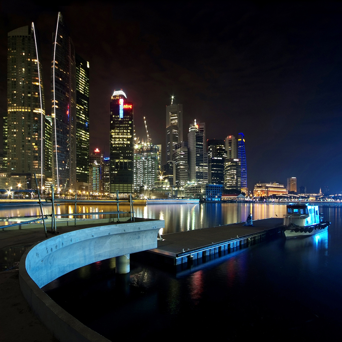 A view of the Central Business District of Singapore from the Lower Boardwalk of Marina Bay. The photograph was taken 100 metres from Marina Bay Sands, which was then under construction. (Not a HDR process. Blended three exposures. One just for the boat using a faster shutter speed at high ISO. The other two exposures were to get the buildings and the jetty details. A blue hour with some dynamic clouds would have improved the scene but unfortunately it was too late when I got there.)